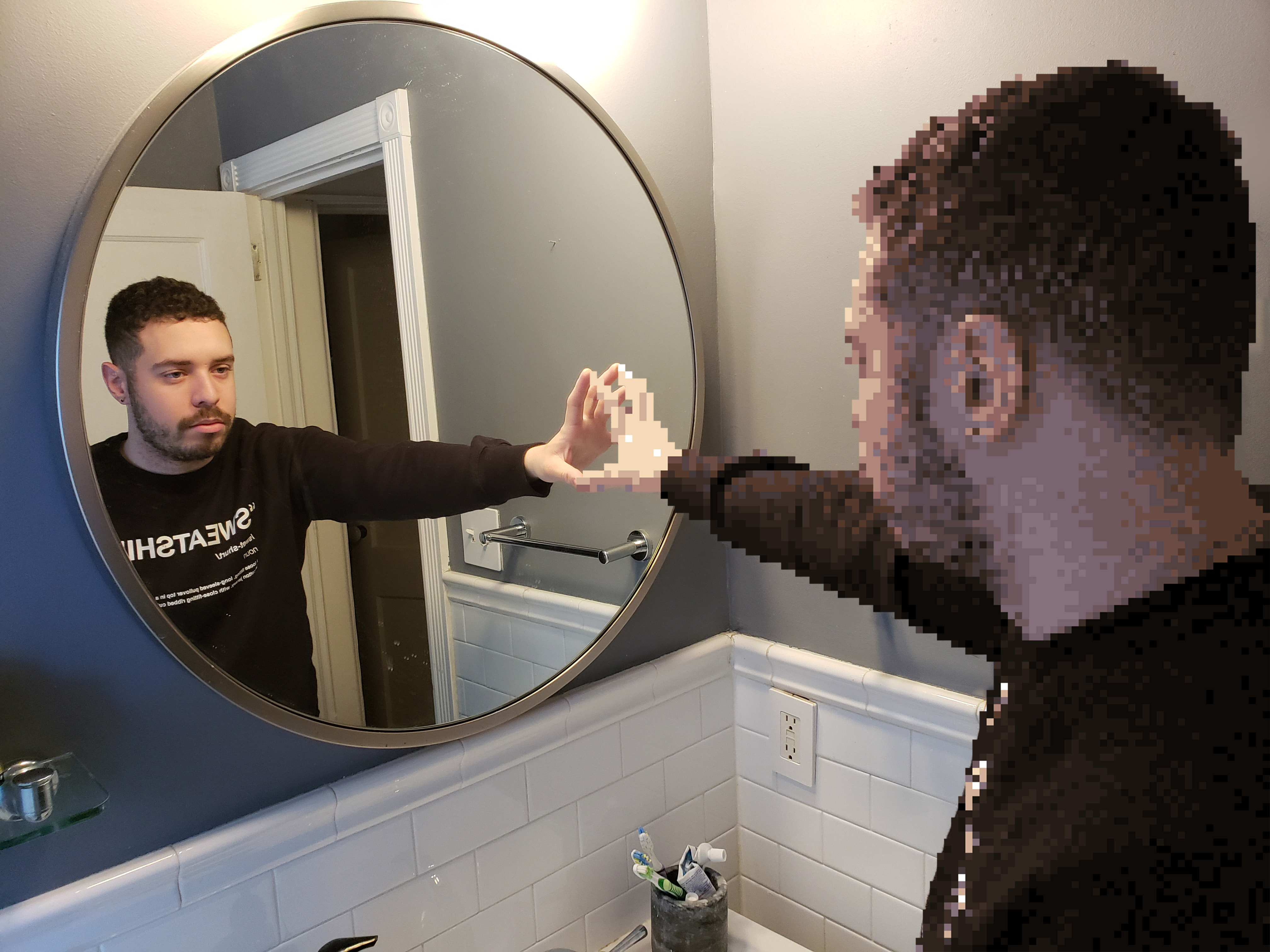 Image of myself. Representation of the concept of dissociation (psychology)